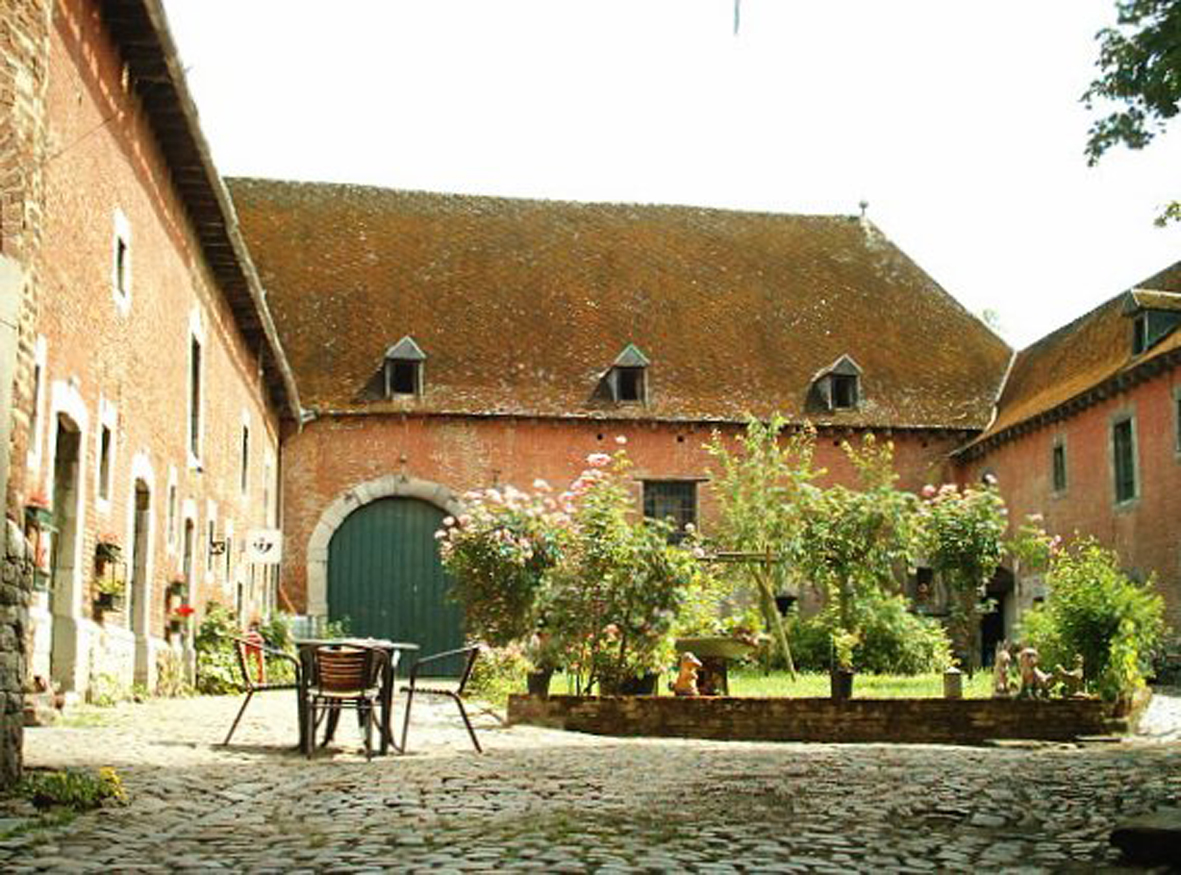 Yard of the farm "Ferme castrale" in Hermalle-sous-Huy, Belgium.